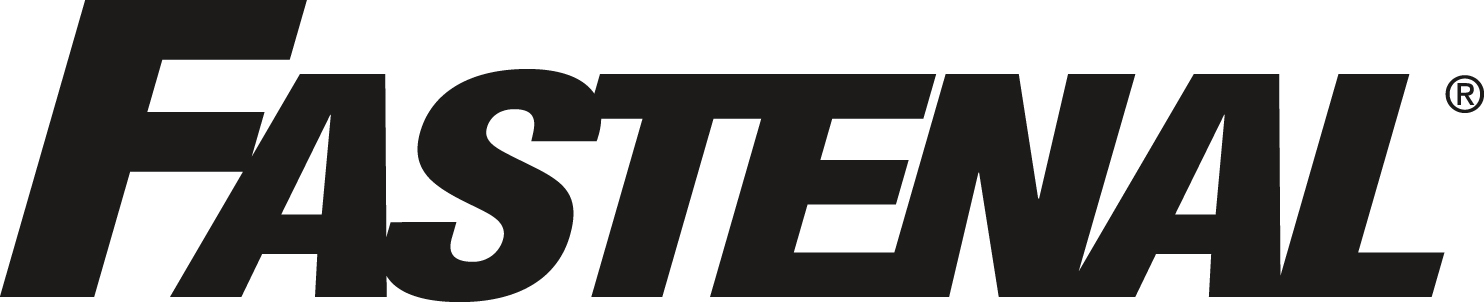 The logo of Fastenal